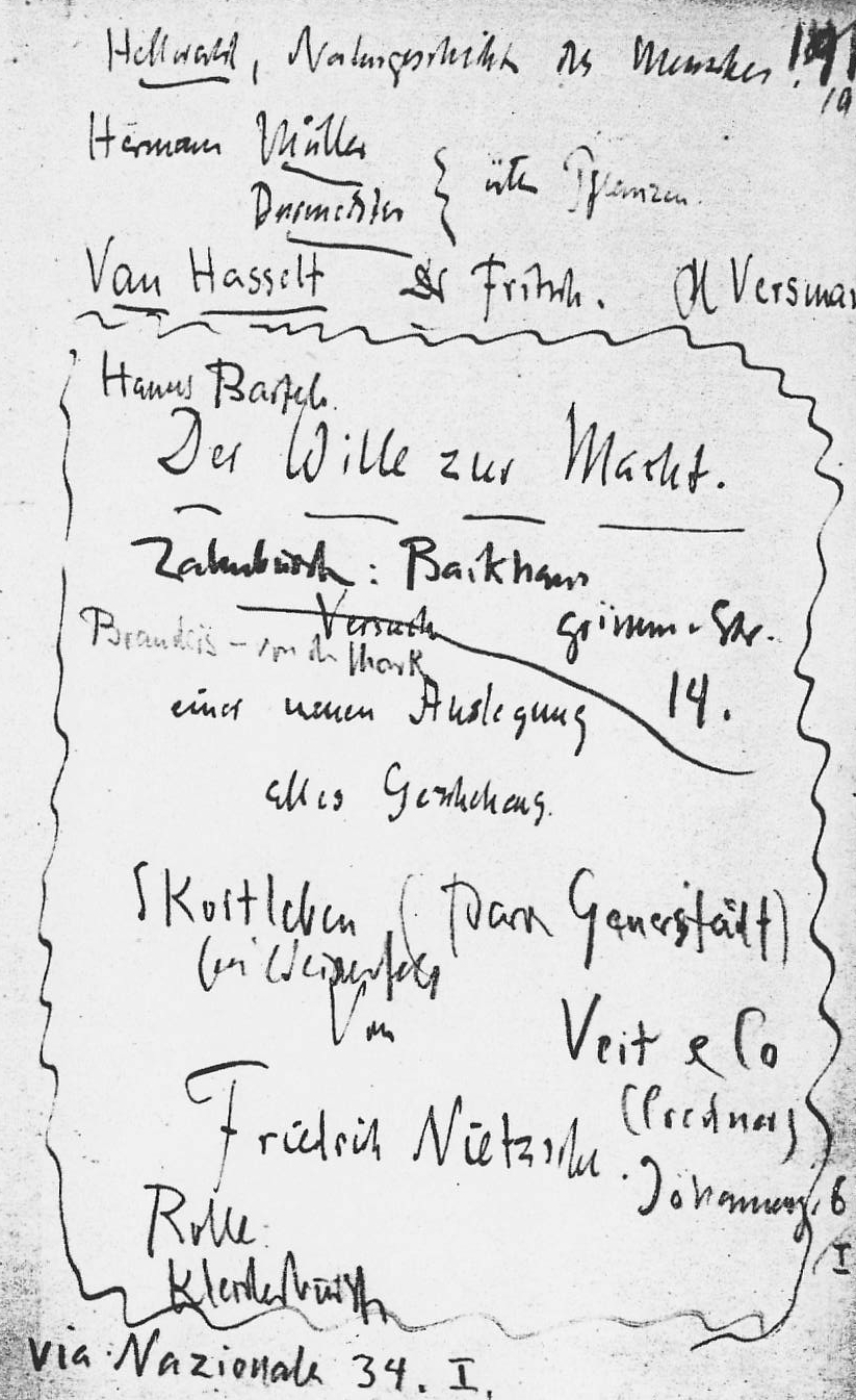 Draft of a title by Nietzsche for „Der Wille zur Macht“ (The Will to Power) with other notes on it